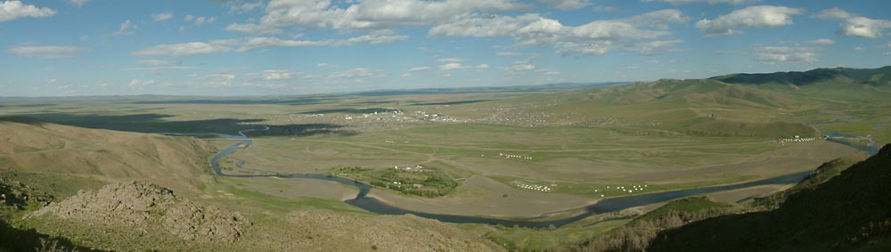 Kharkhorin site and the Orkhon River, in Orkhon Valley, Mongolia.